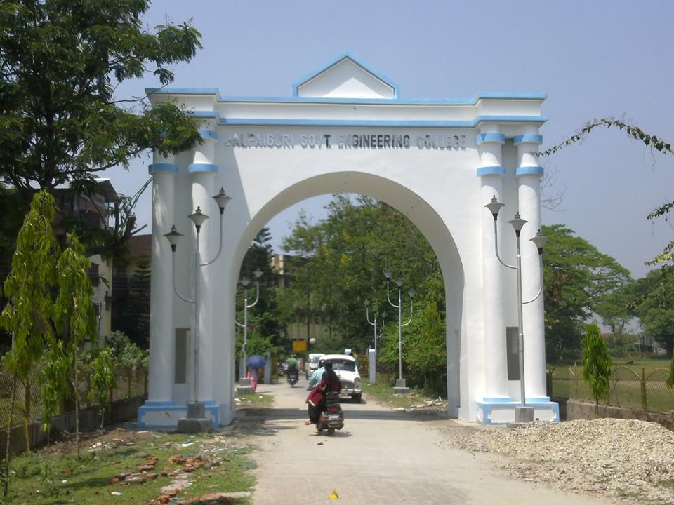 The Great Entrance Gate of JGEC- "JOLU Toron"